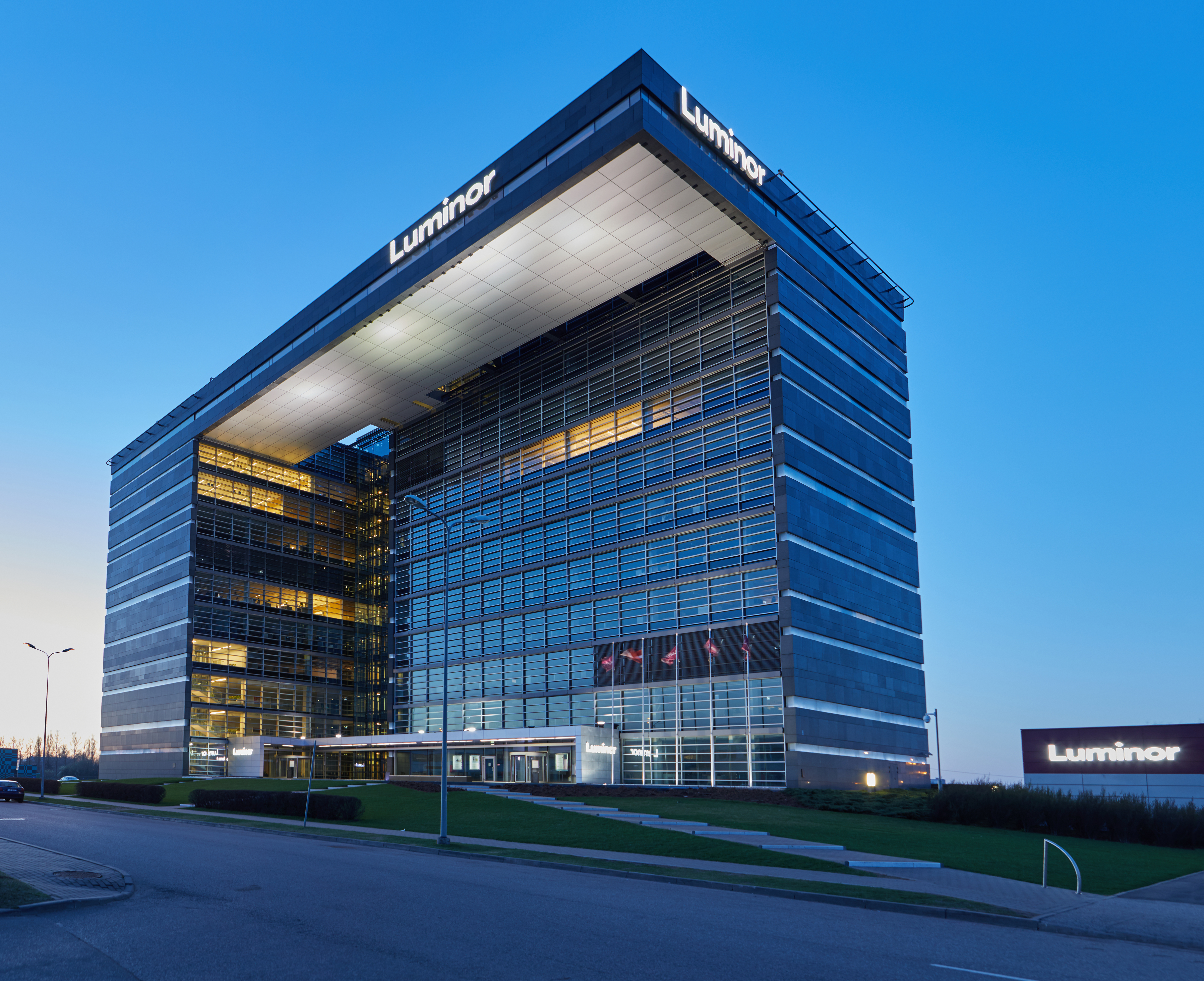 Luminor at night